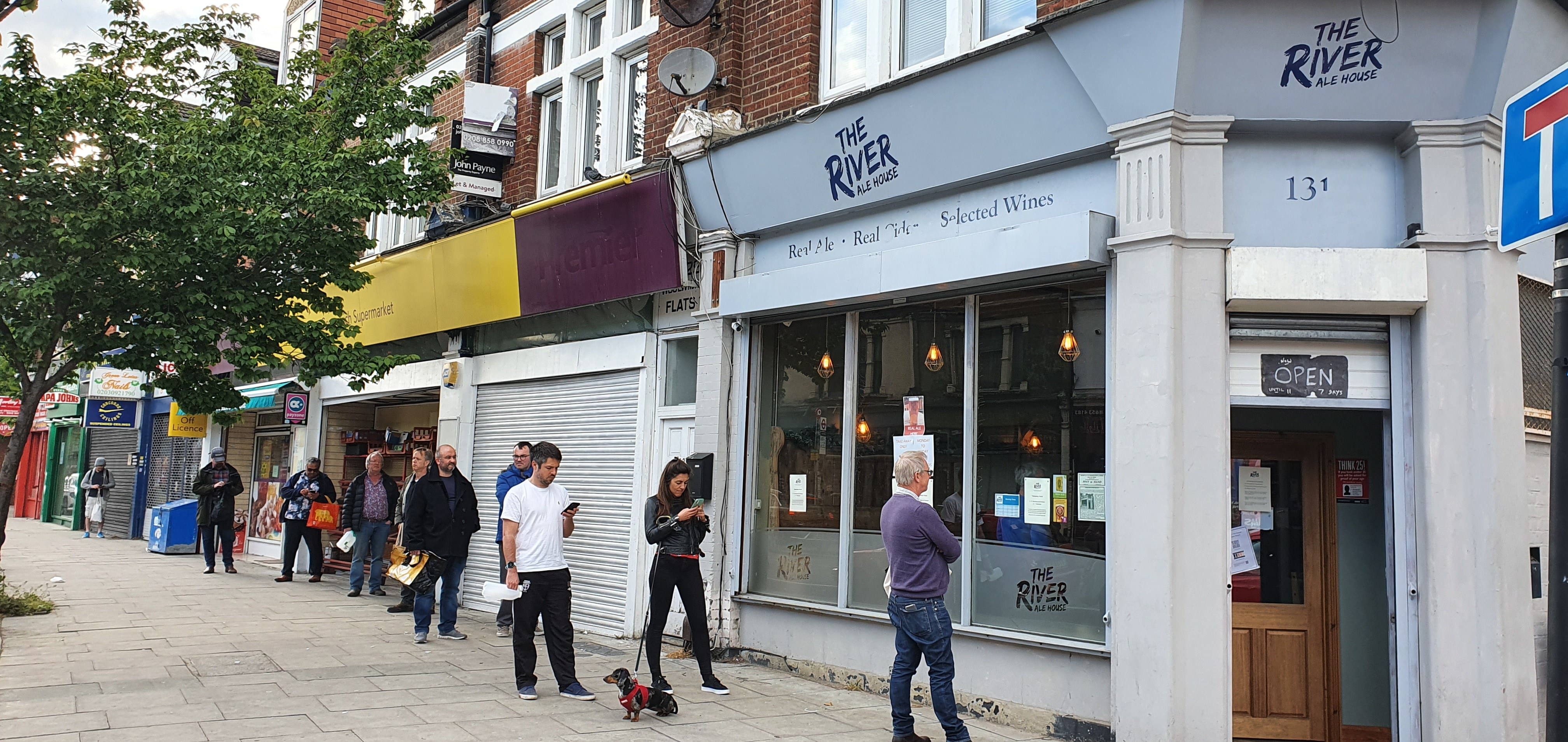 Queuing to buy beer in London during Covid-19 pandemic 131 Woolwich Rd, The River Ale House, Greenwich Peninsula, London SE10